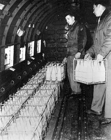 Berlin Blockade: Milk